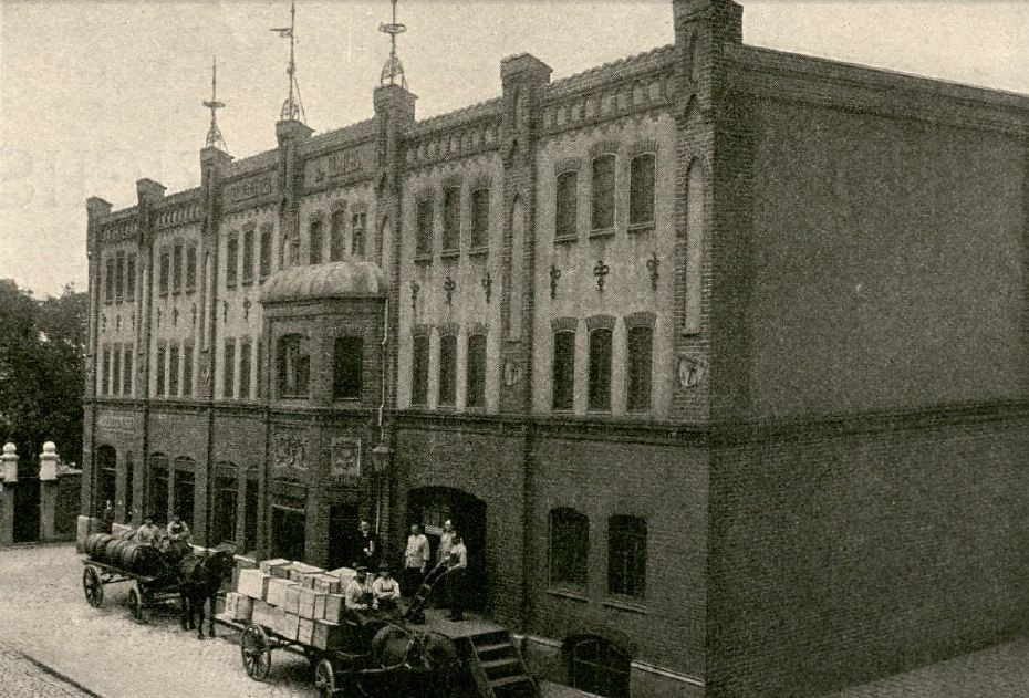 Reidemeister & Ulrichs Wine Merchants Warehouse, An der Brake